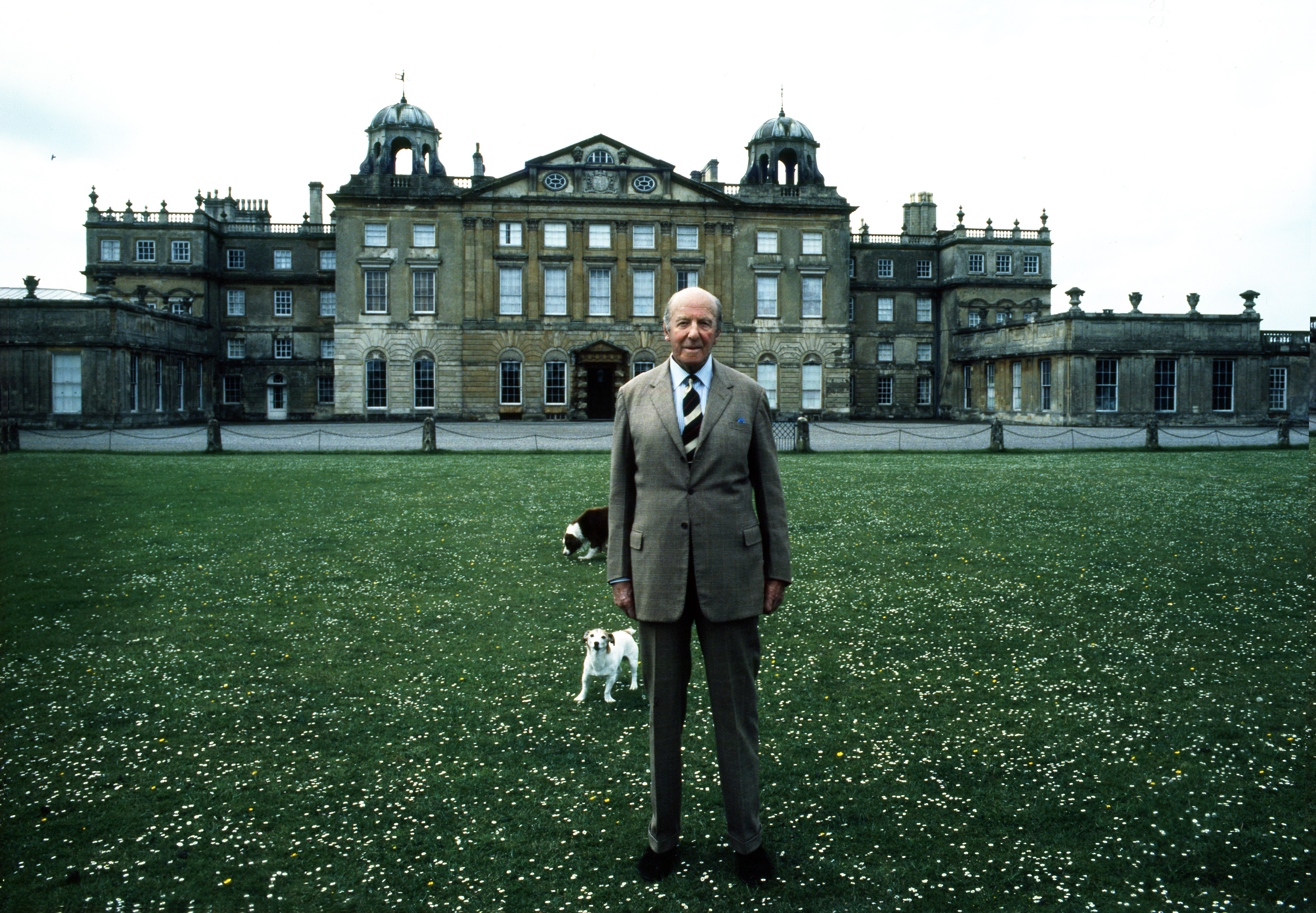 10th Duke of Beaufort outside Badminton Hall, his family seat Wiltshire